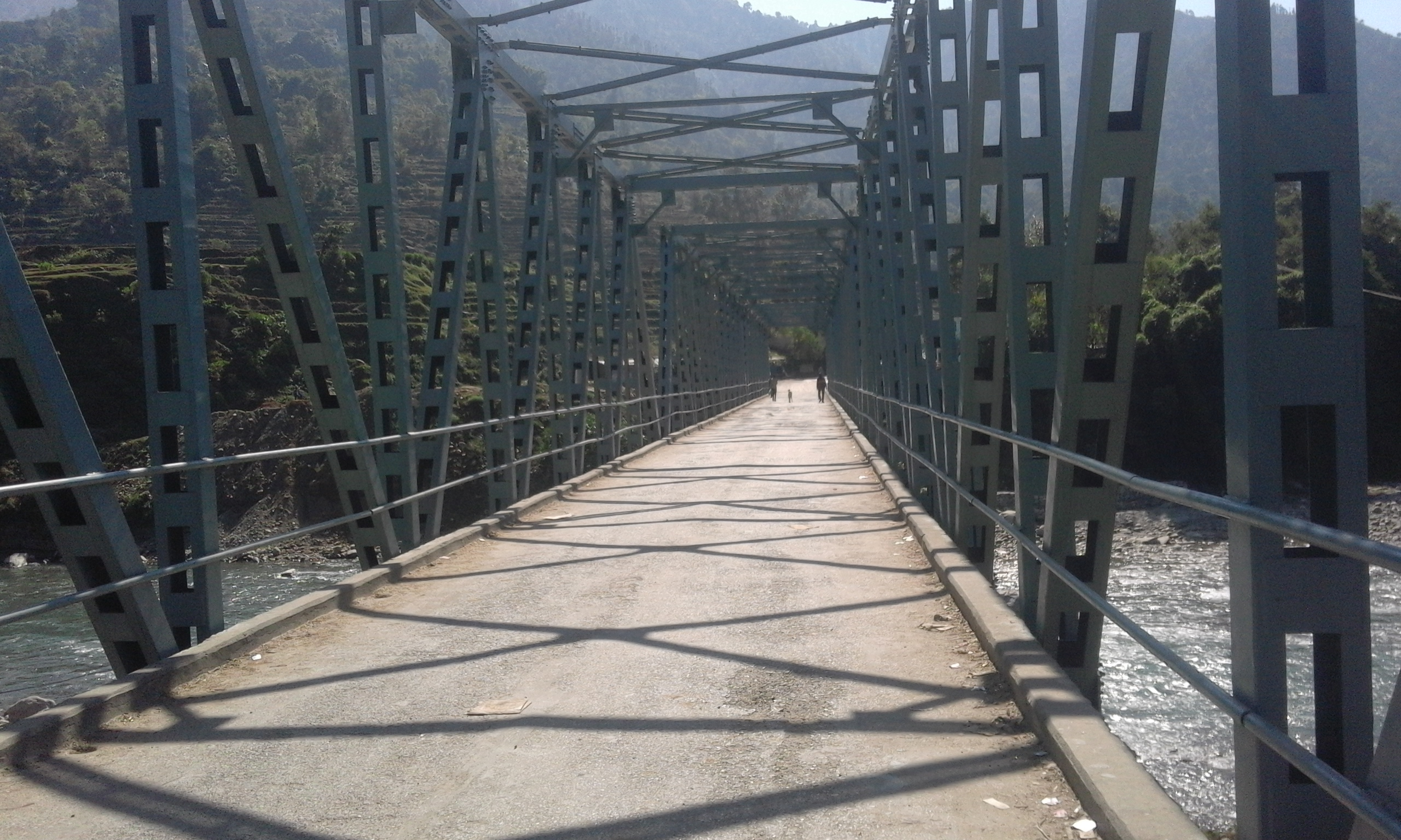 Bridge at Gokuleshwor Darchula. This separates the Baitadi and Darchula district.